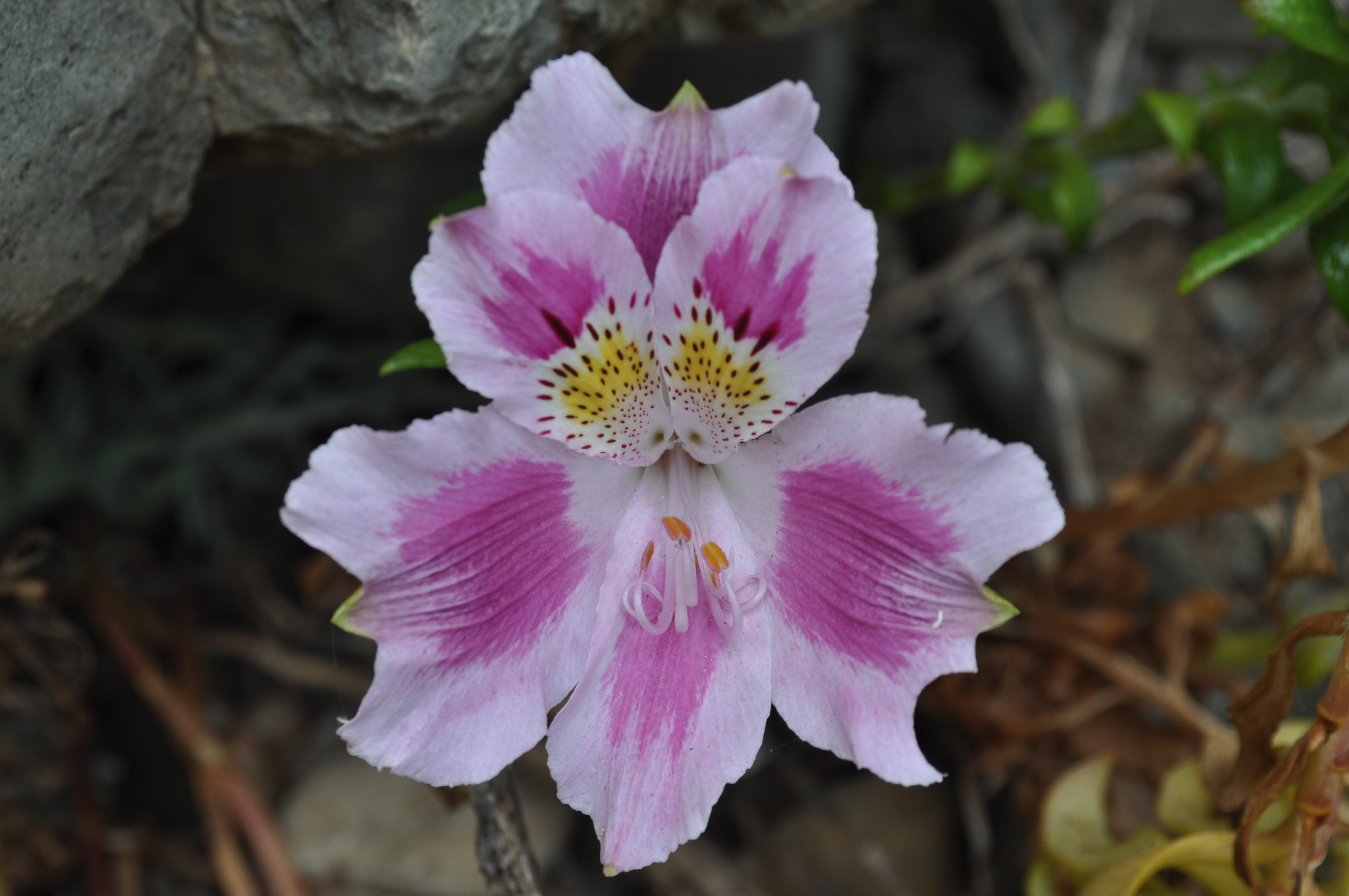 Alstroemeria pelegrina; Family: Alstroemeriaceae; Order:Liliales Chilean Name:Peregrina, Mariposa de Los Molles English Name:Inca Lily